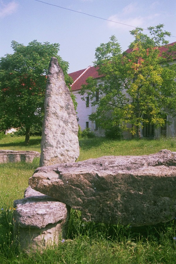 Dolmen, Holíč, Slovakia